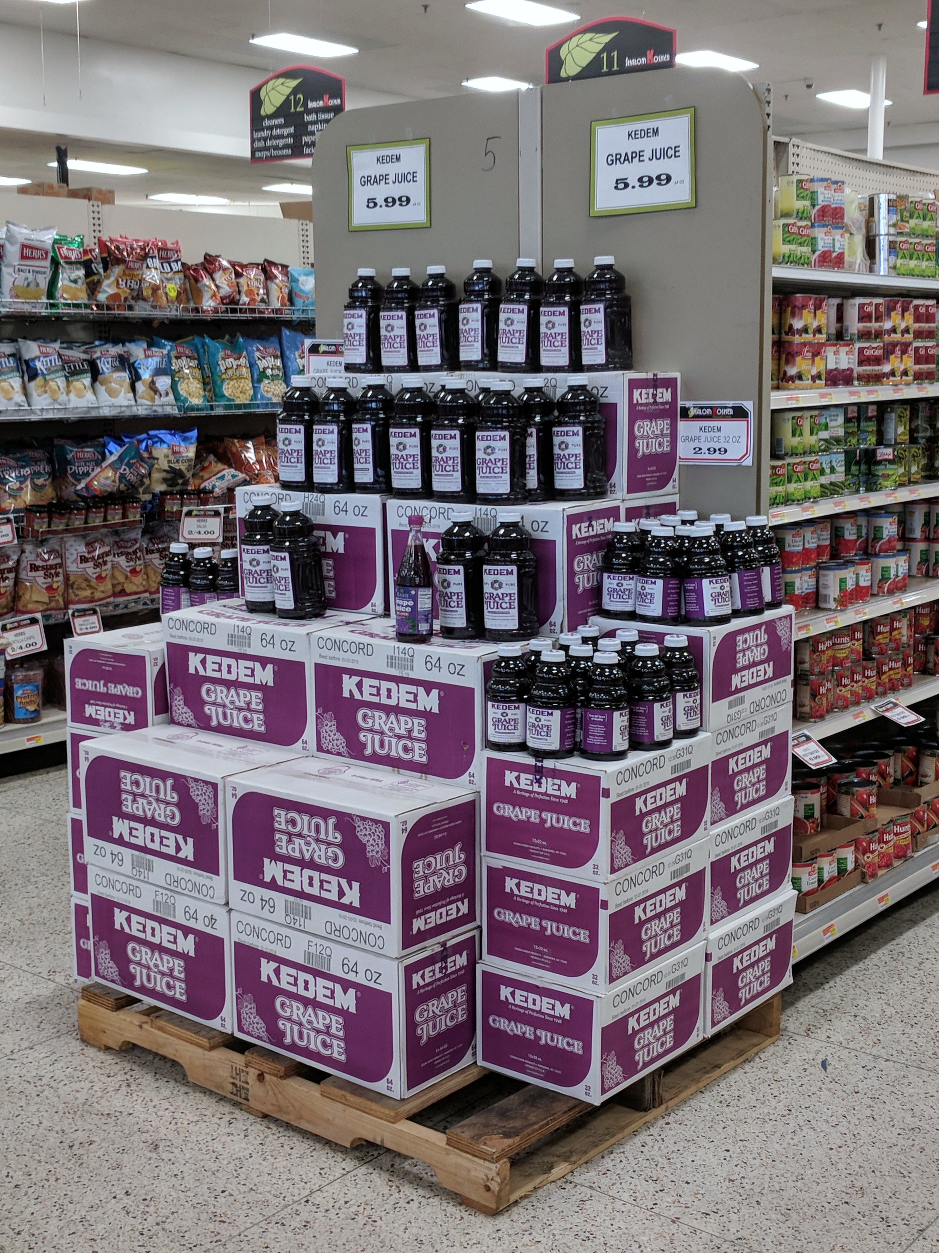 Shalom Kosher, a kosher Jewish grocery store in Kemp Mill, Montgomery County, Maryland.